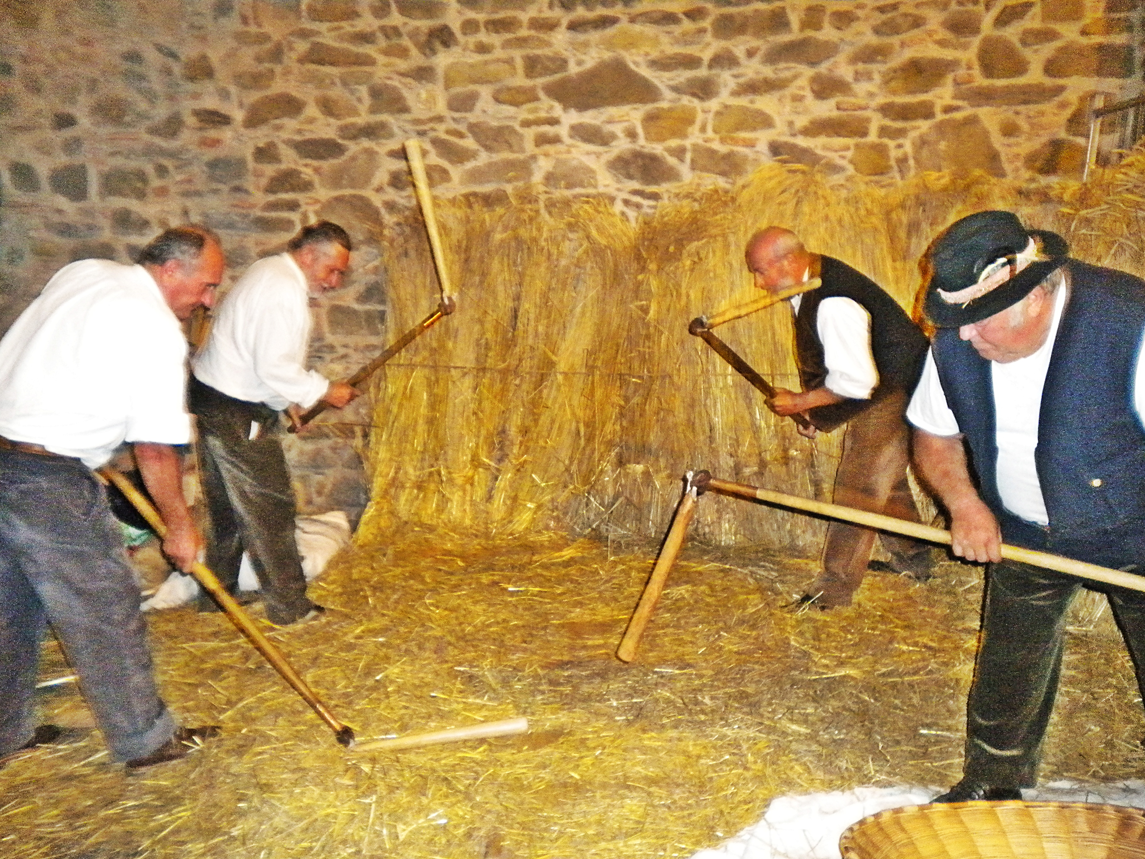 wheat batters